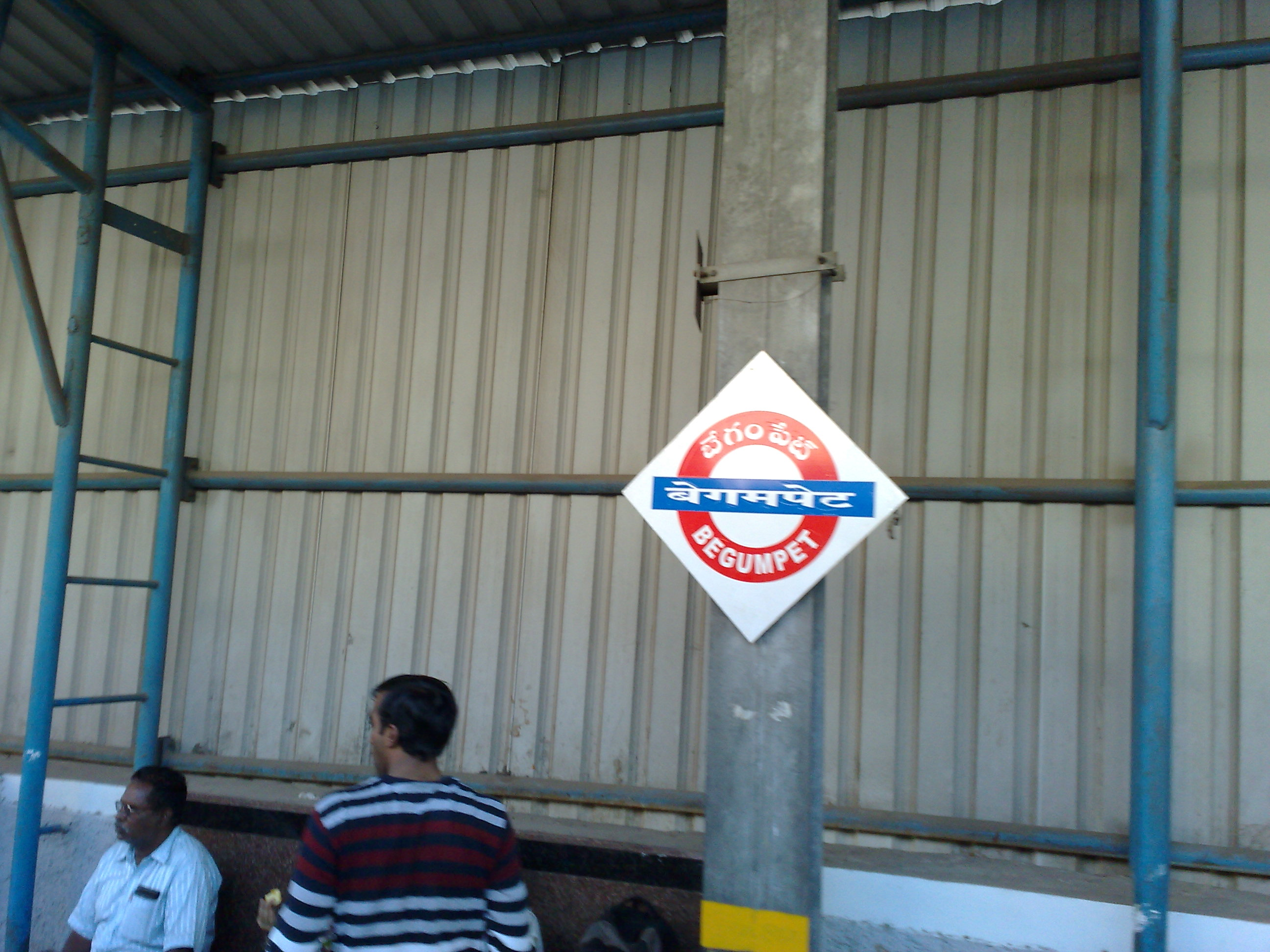 Begumpet railway station - platformboard